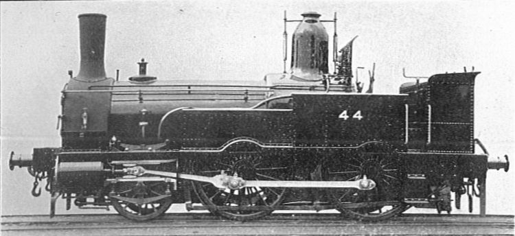 Beattie's tank engine for the London and South Western Railway